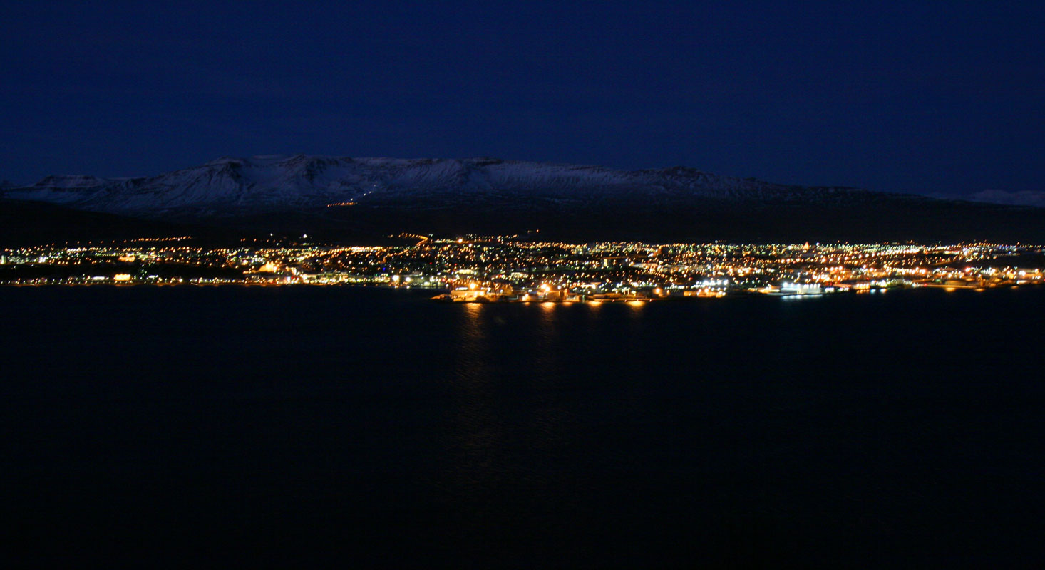 Beginning of Day 2. Akureyri, viewed from the eastern shore of Eyjafjörður on Vaðlaheiði November 22 09:47 Iceland, November 2007 Photo by me user:debivort (or friend, with permission given to freely license photo).